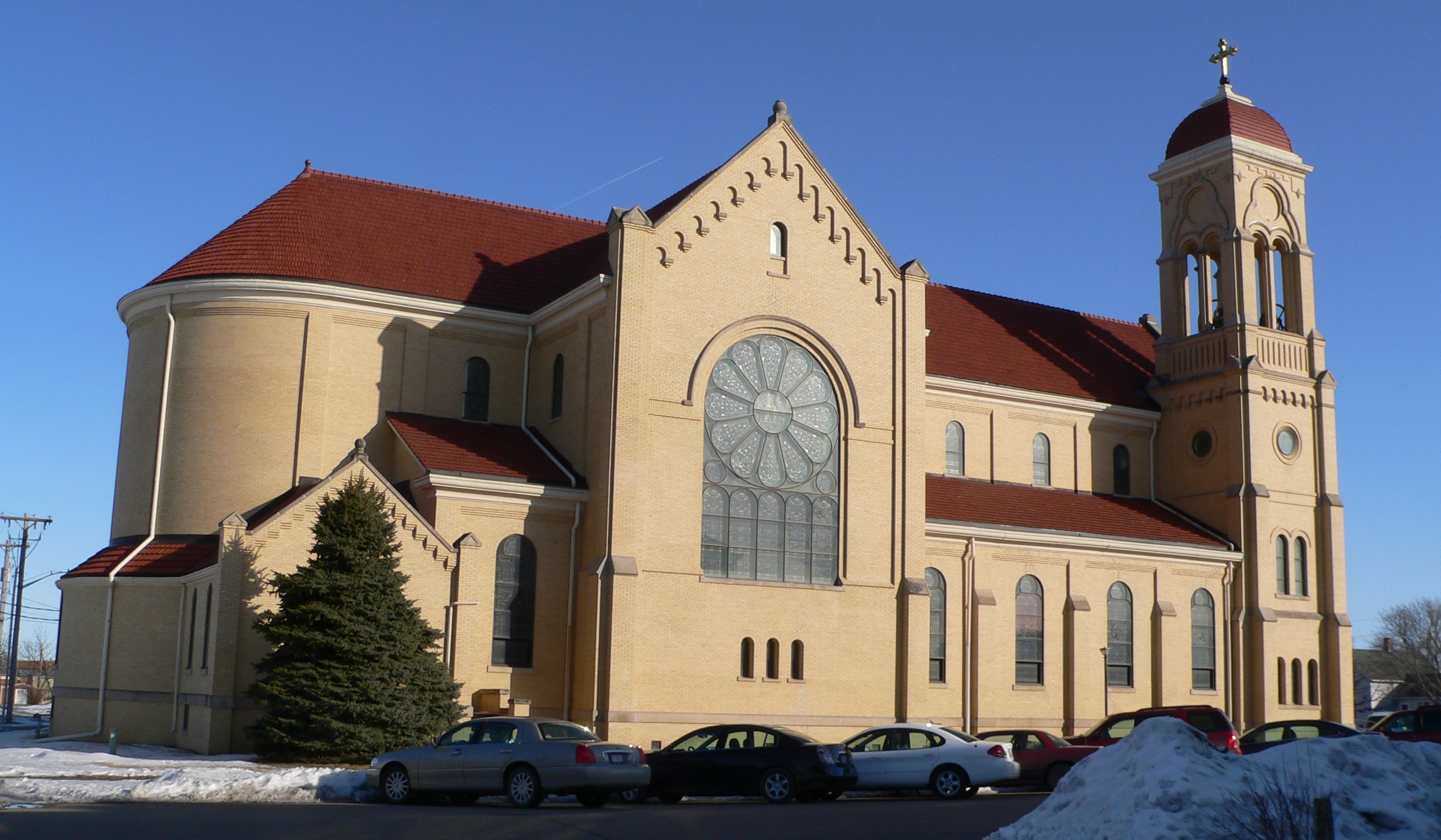 St. Anthony's Church in Cedar Rapids, Nebraska; seen from the west. The Romanesque revival church was designed by architect Jacob Nachtigall and built in 1919. The church and the neighboring St. Anthony's School are listed in the National Register of Historic Places.